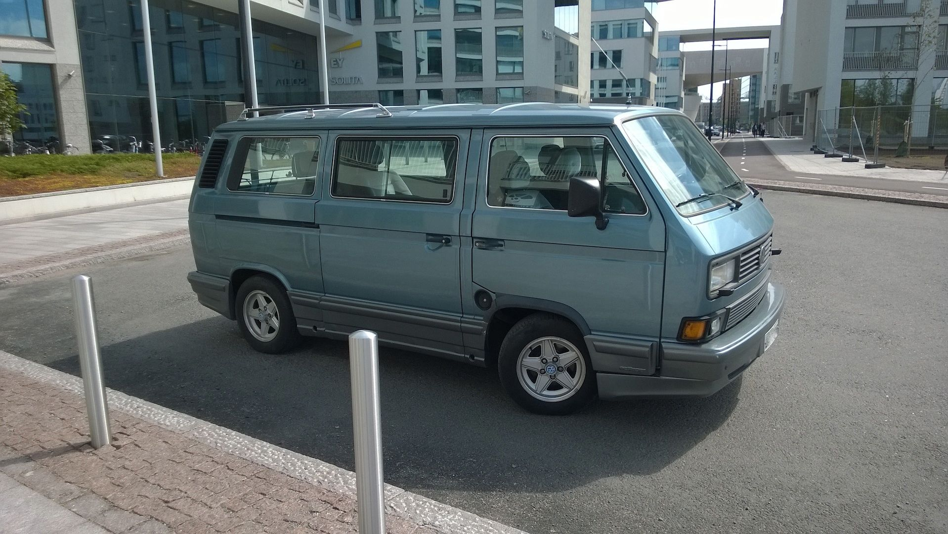 1988 Carat wbx6, photographed in June 2015